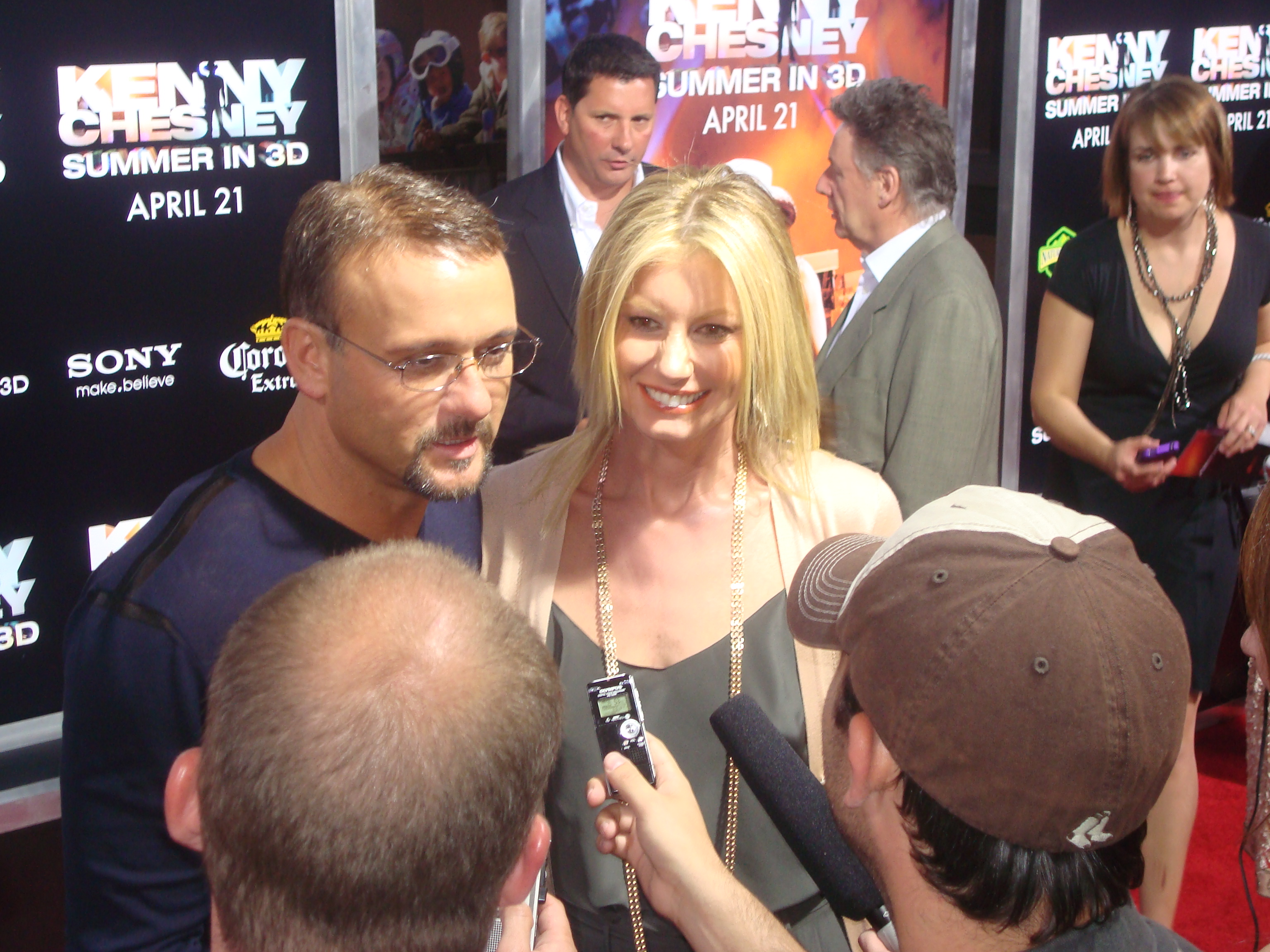 Tim McGraw and Faith Hill at the 2009 premiere of Kenny Chesney:Summer in 3D.